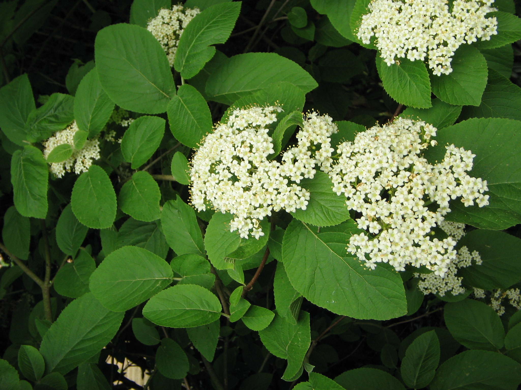 Viburnum lantana